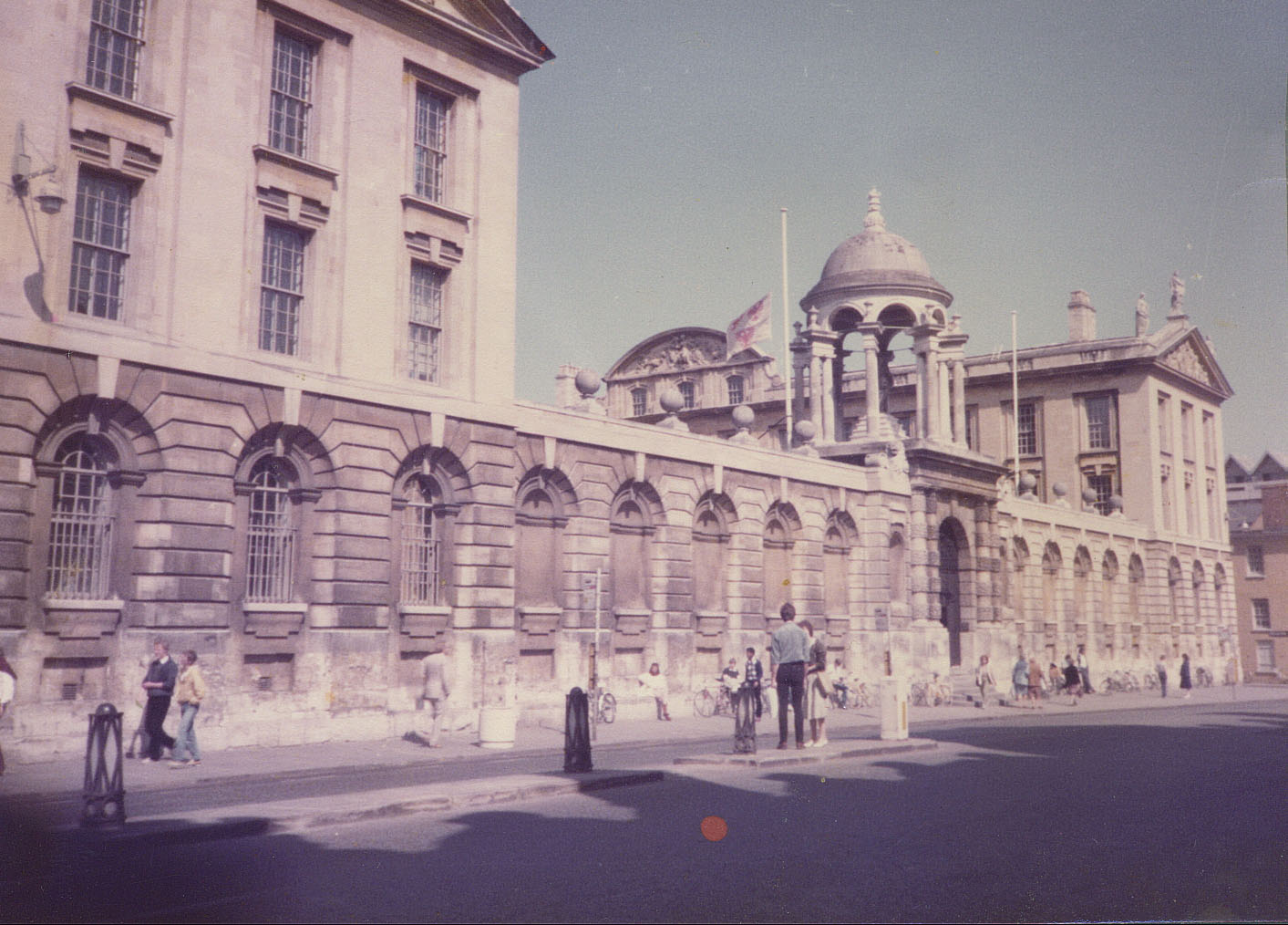 Photo taken of the Queen's College on High Street, Oxford, on April 17, 1984, with my Nikon camera, standing on street in front of University College. It is entirely my own work!